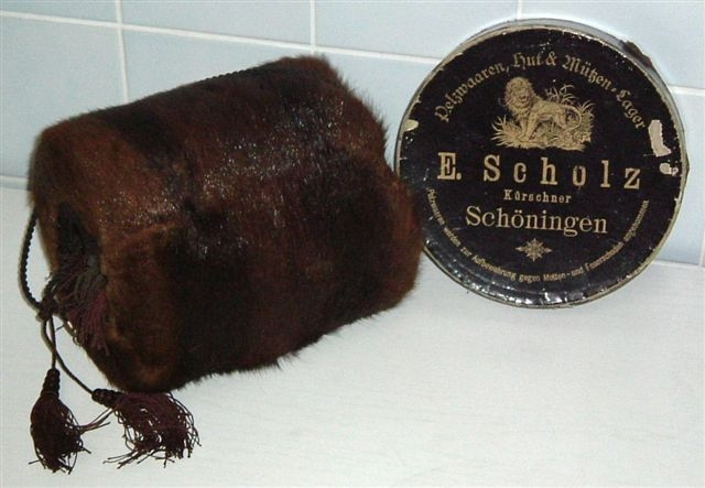 Furrier's muff bandbox